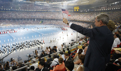 President George W. Bush and Mrs. Laura Bush acknowledge the entrance of the U.S. athletes into China's National Stadium in Beijing, Friday, Aug. 8, 2008, for the Opening Ceremonies of the 2008 Summer Olympics. The President called the event "spectacular and lots of fun." White House photo by Eric Draper